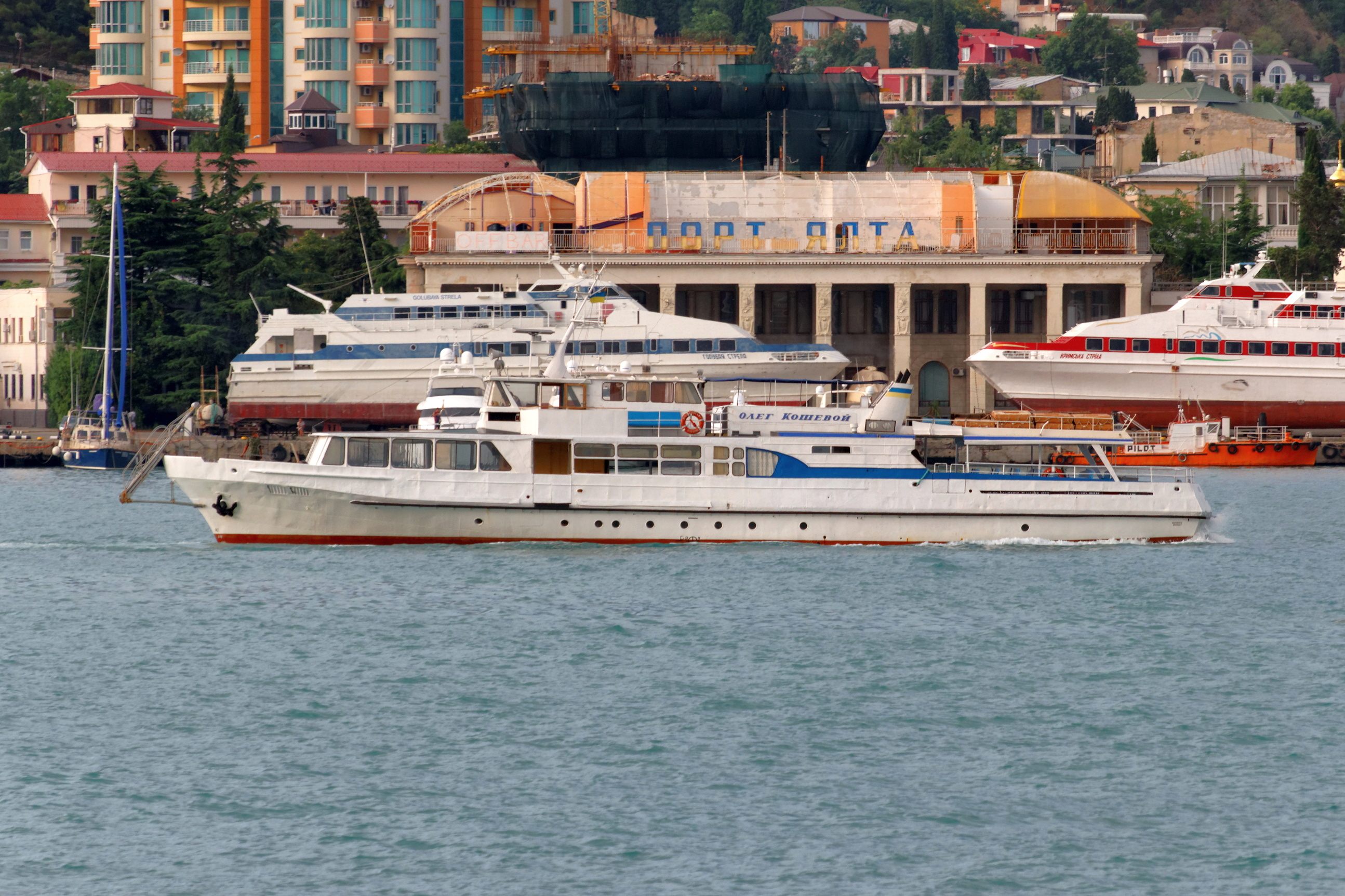 Yalta